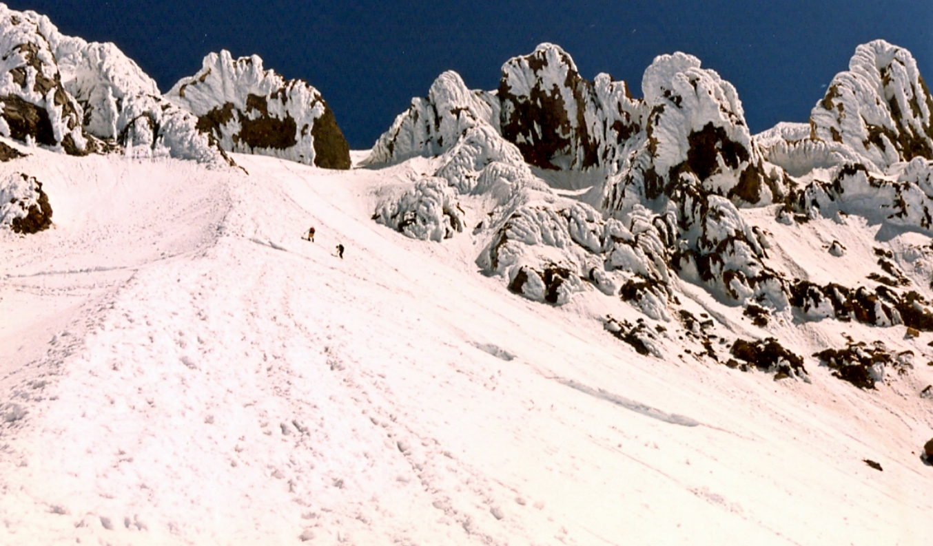 Two climbers on Mount Hood approaching the Pearly Gates. May 1994